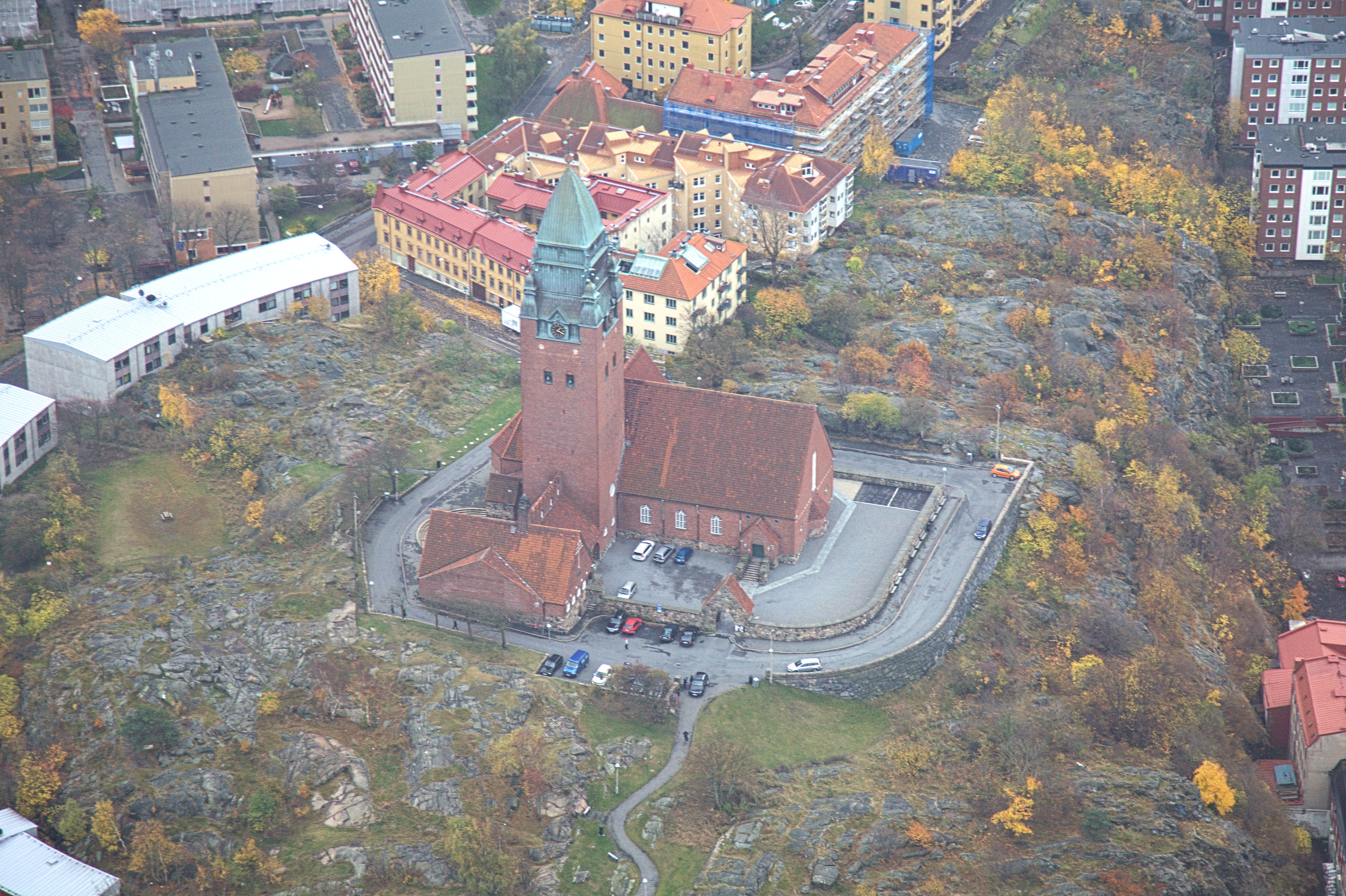 Photo taken on a helicopter over Gothenburg